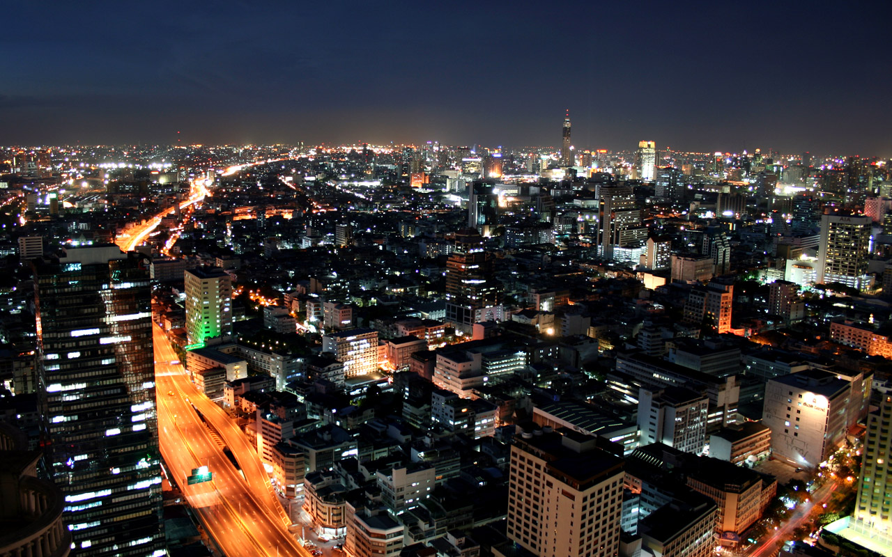 Bangkok at night, view from State Tower